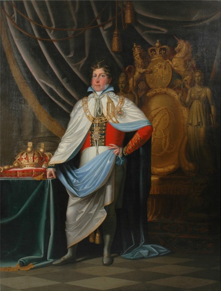 "George IV (1762-1830), King of the Great Britain and King of Hanover". This portrait was painted in 1824, on the occasion of the British monarch's visit to Hanover.